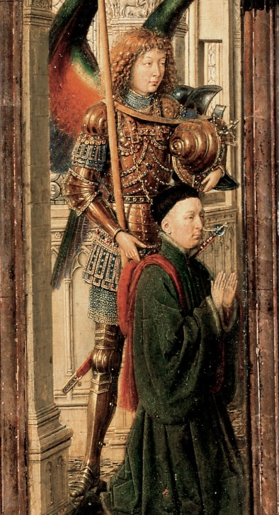 Crop of the Dresden Triptych showing the Archangel Michael presenting the donor; frame is included under a claim of de minimis